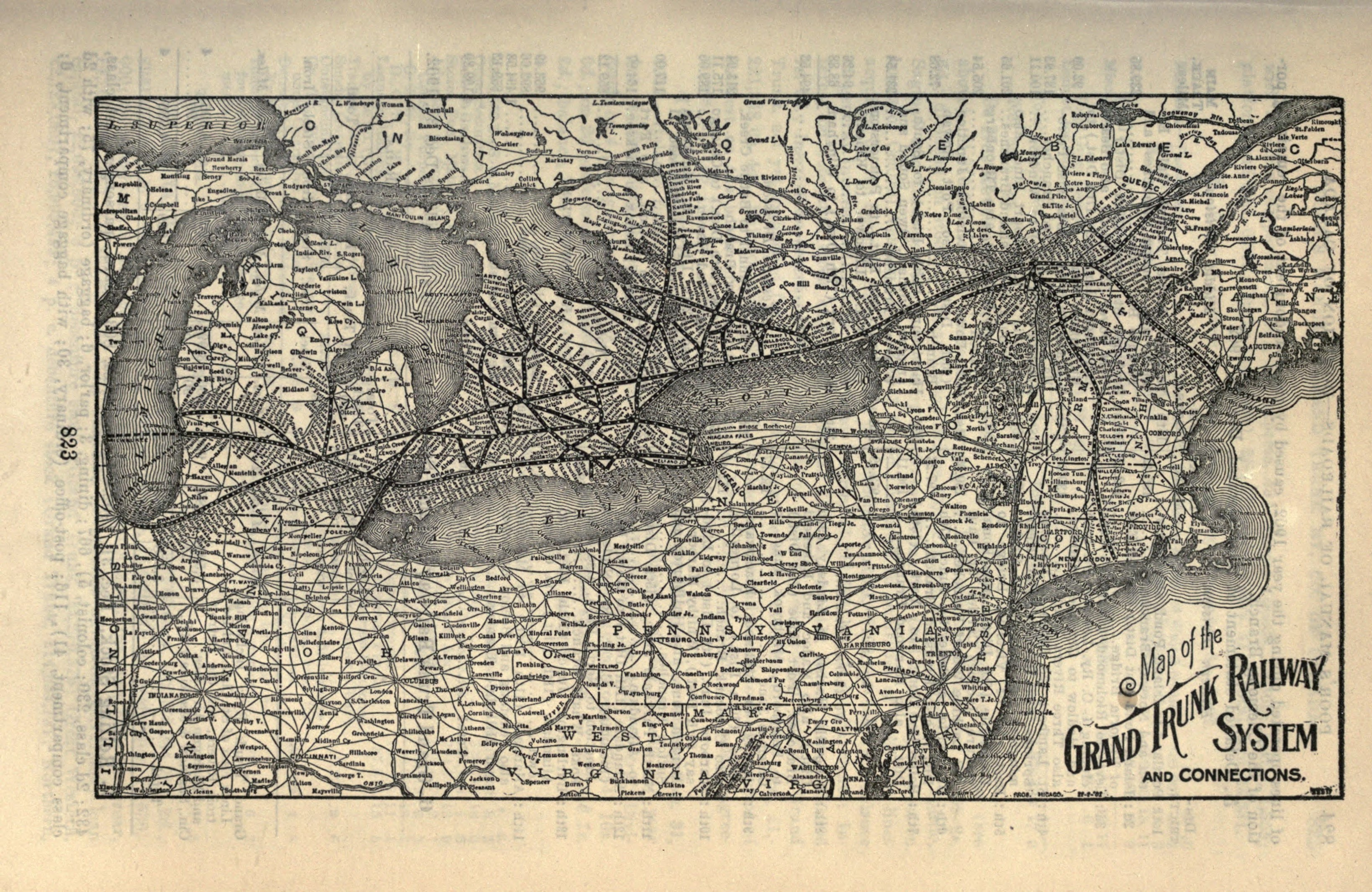 Grand Trunk Railway